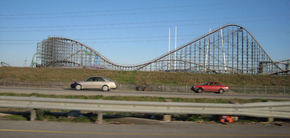 New Orleans after Hurricane Katrina: Six Flags New Orleans Roller-coaster track as seen from Paris Road Highway. Park flooded badly after the storm. Photo by Infrogmation, January 2006.